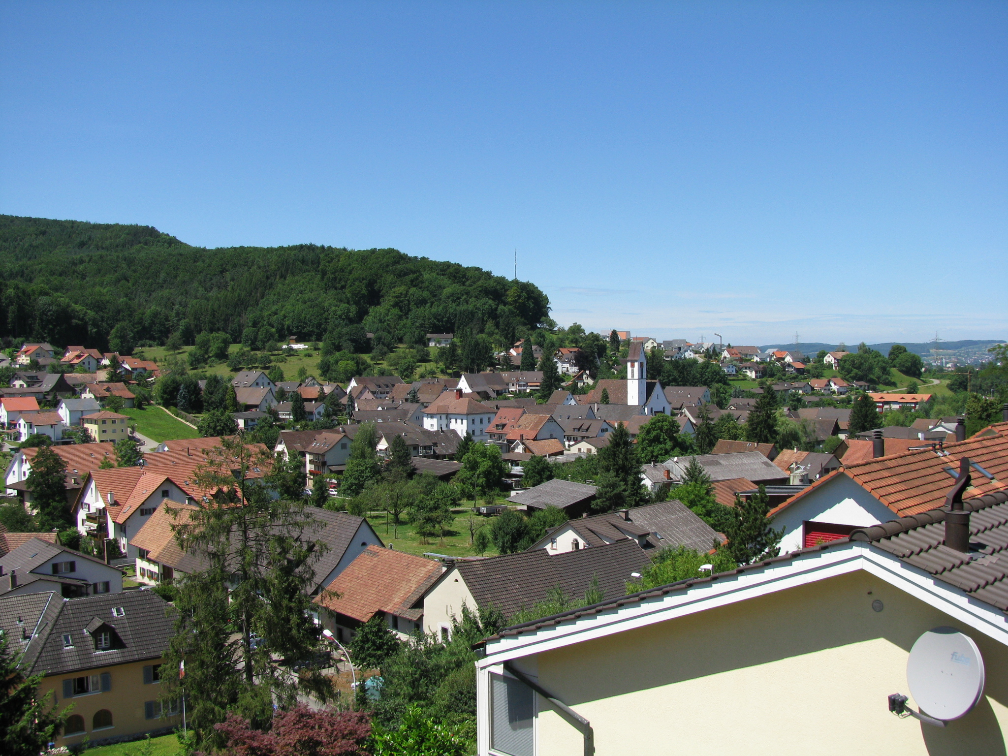 View of Zeiningen